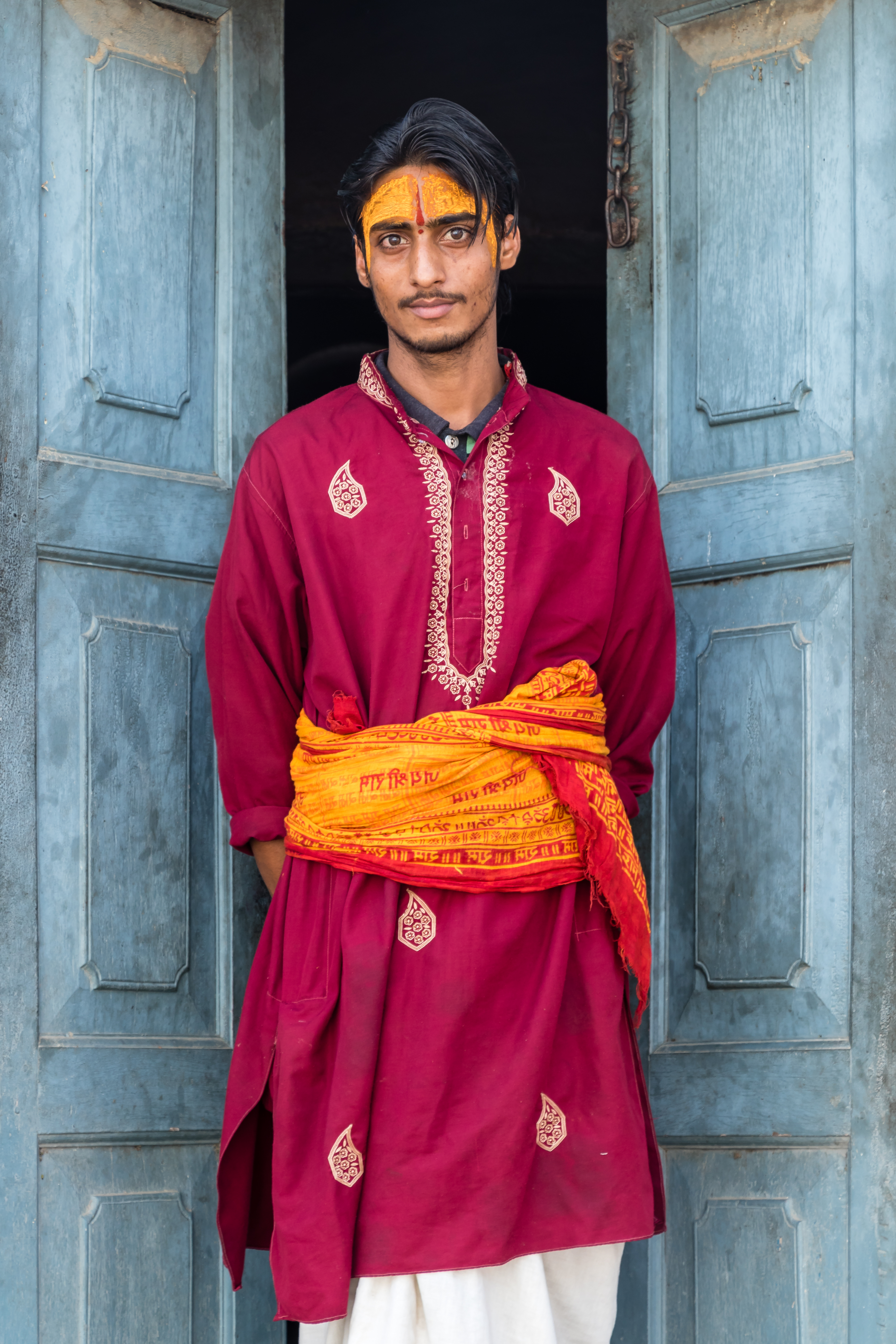 Pujari (Hindu temple priest) in Janaki Mandir, Nepal